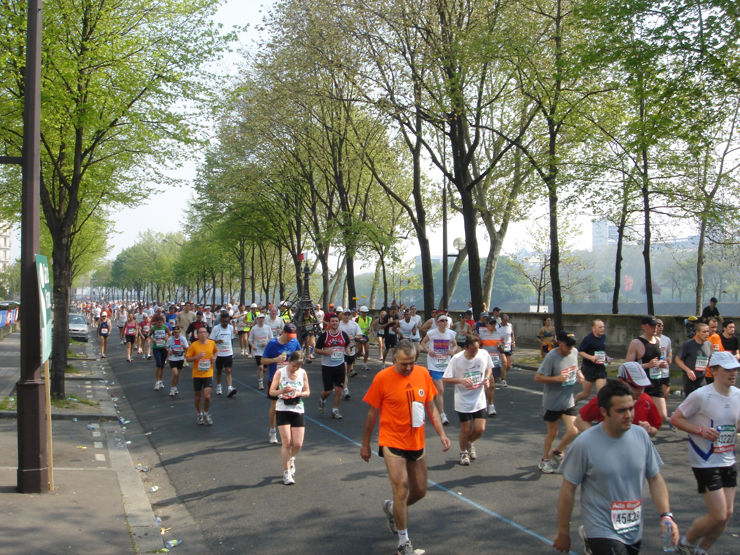 2007 Paris Marathon : runners along the Seine, 104 avenue du Président Kennedy, in the 16th arrondissement of Paris